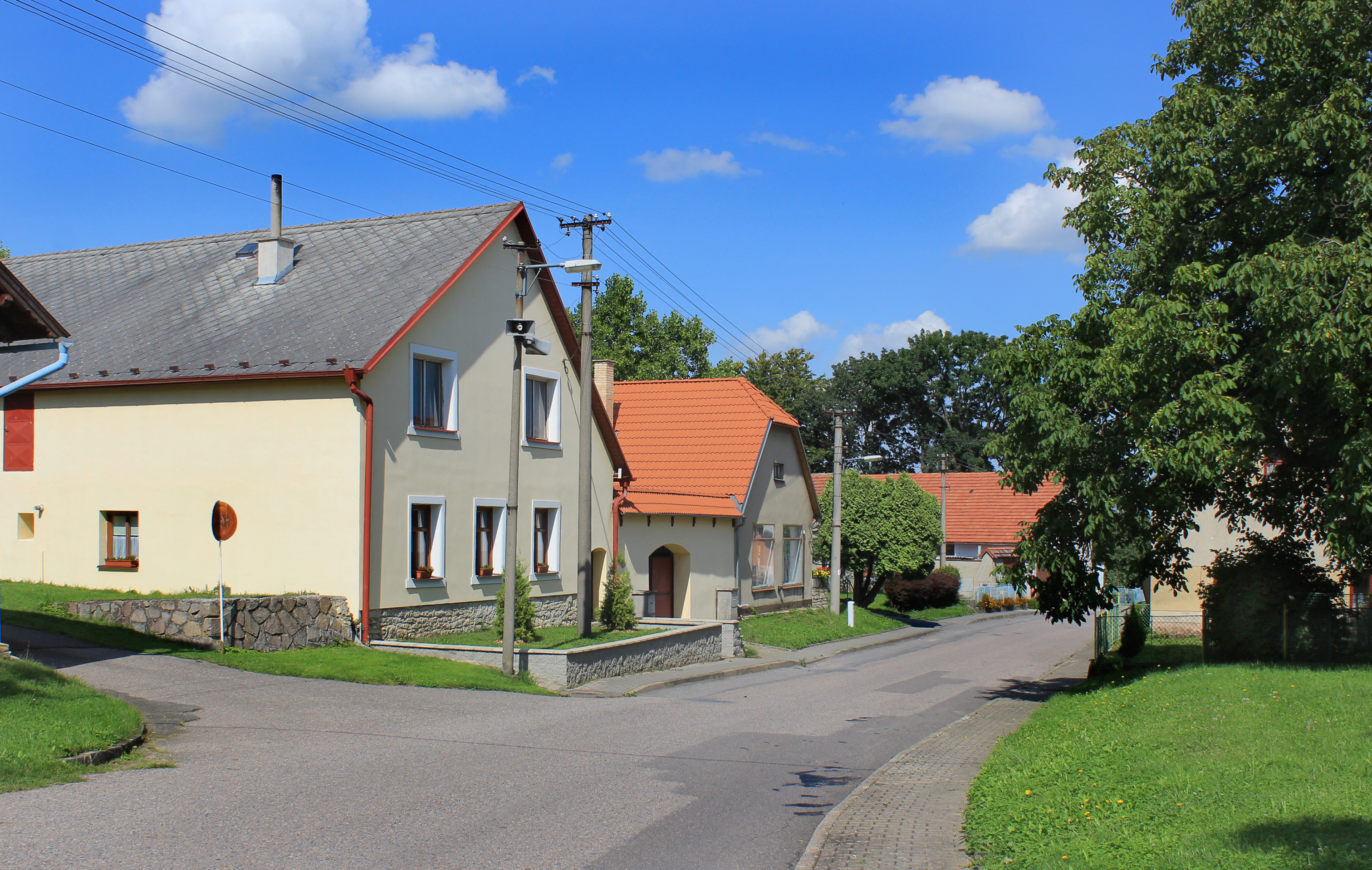 Main street in Suchá Lhota, Czech Republic.